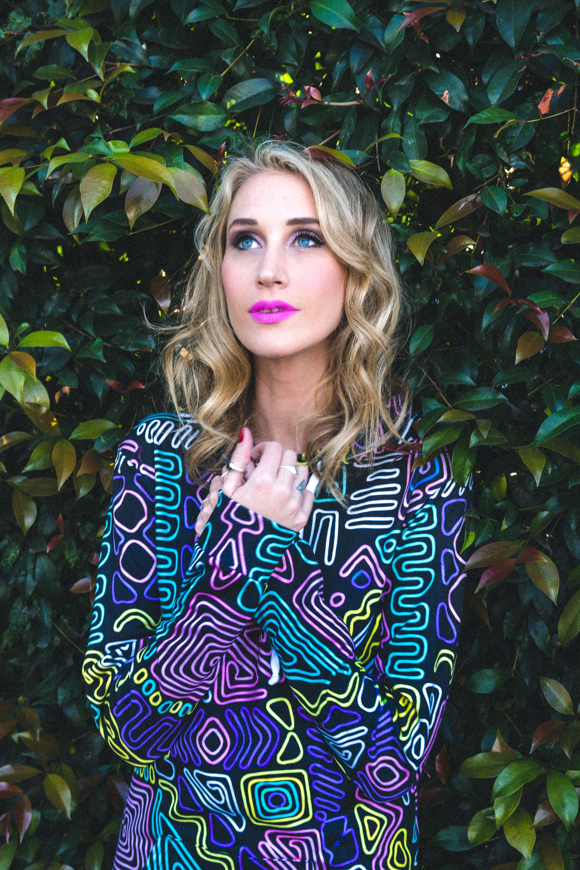 Maude Garrett in WHUT Neon Dream Hoodie Dress. Shopwhut photoshoot.